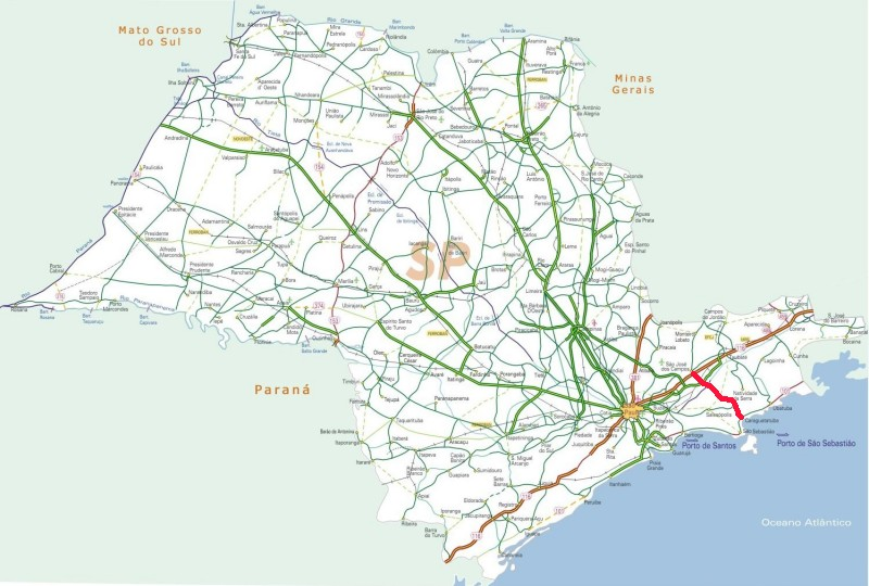 Map of Rodovia Tamoios, a highway in the state of São Paulo, Brazil, drawn on a public domain map by the Ministry of Transportation, Brazil.